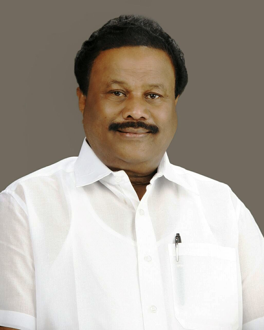 C. Sreenivasan